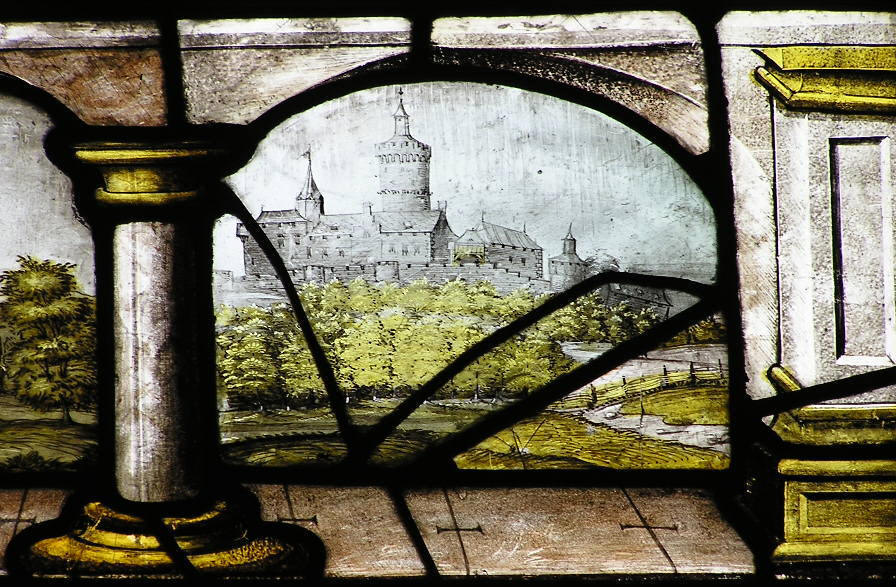 Image of Godesburg castle in Bad Godesberg, Bonn, Germany, on a church window at Kloster Ehrenstein/Wied; according to Potthoff (2009), Die Godesburg - Archäologie und Baugeschichte einer kurkölnischen Burg, this is the only detailed image of Godesburg castle before its destruction and thus an important source for reconstructing what the castle looked like in the 15th century.